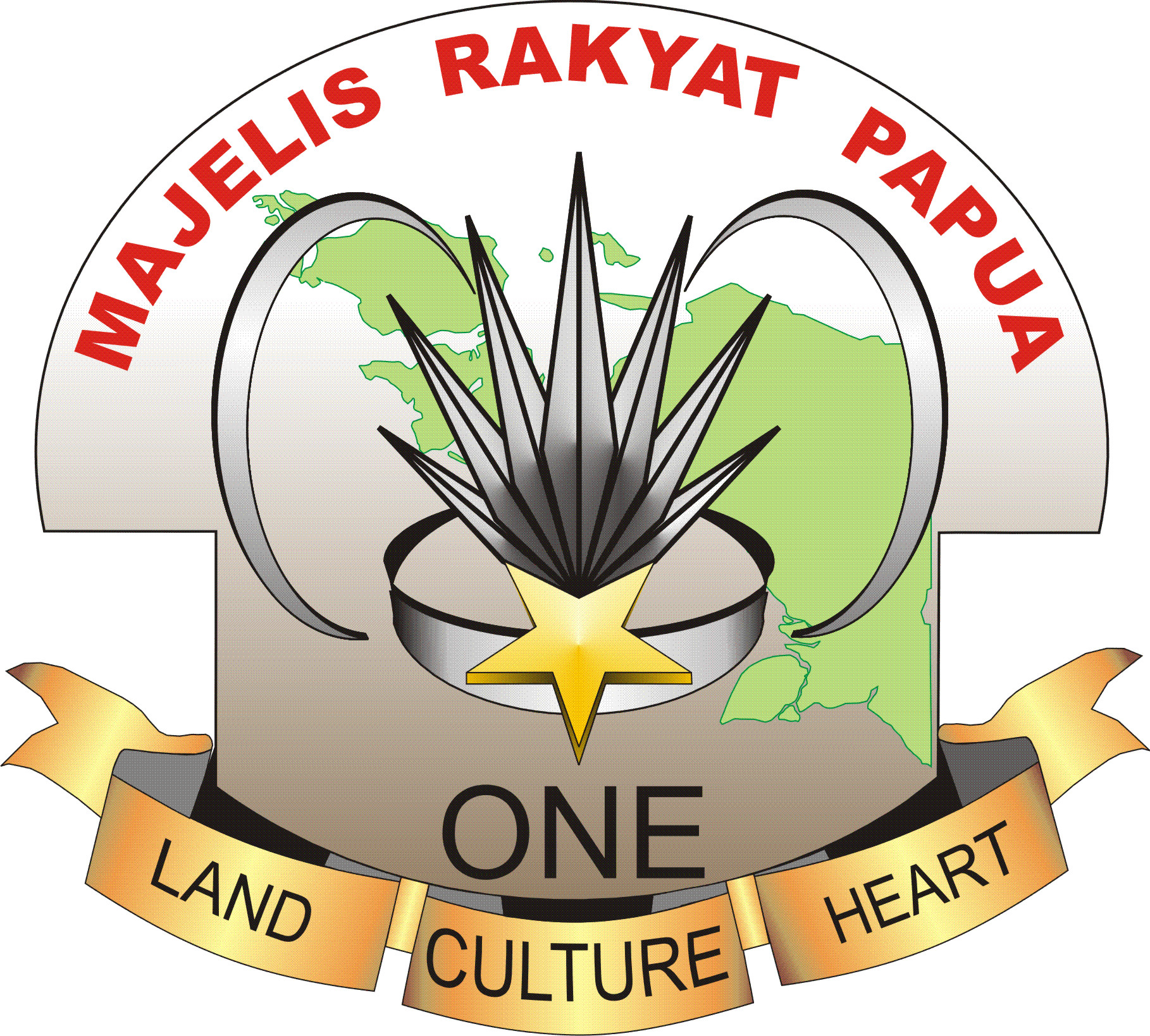 Seals of Majelis Rakyat Papua (Papuan People Congress). A governmental organization to administer the Papuan Special Autonomy